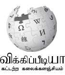 Wikipedia logo 2.0